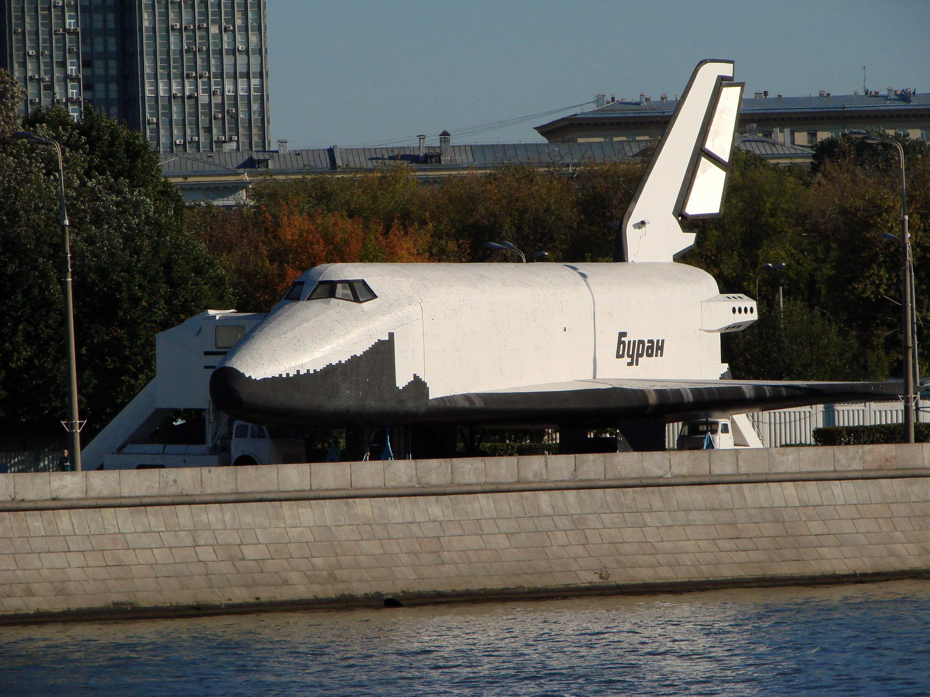 OK-TVA Structural test vehicle for Buran Shuttle program in Gorky Park. Moscow.